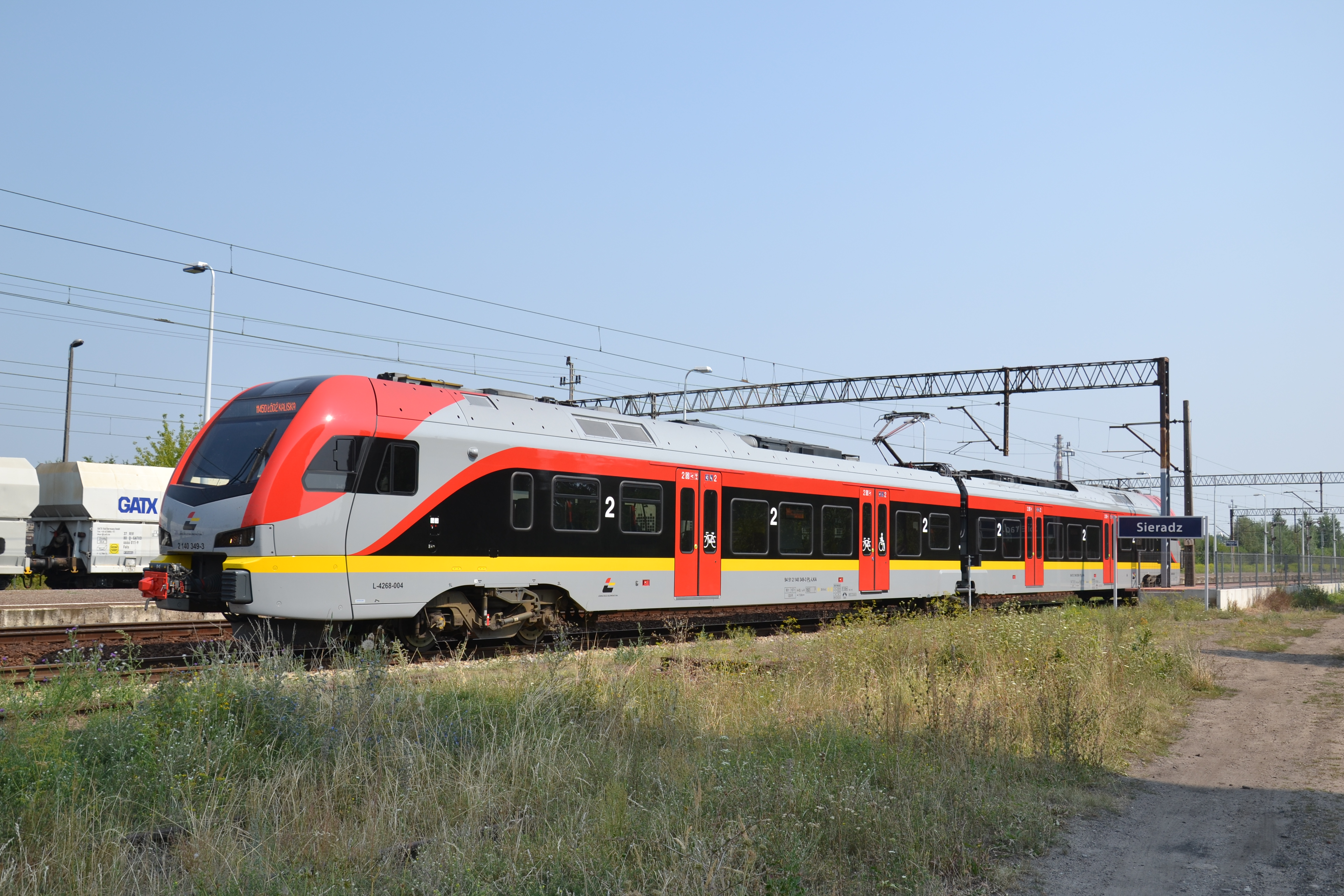 Flirt ŁKA na stacji w Sieradzu This photo was taken during Railway Wikiexpedition 2015 set up by Wikimedia Polska Association in cooperation with Fundacja Grupy PKP.You can see all photographs in category Wikiekspedycja kolejowa 2015.